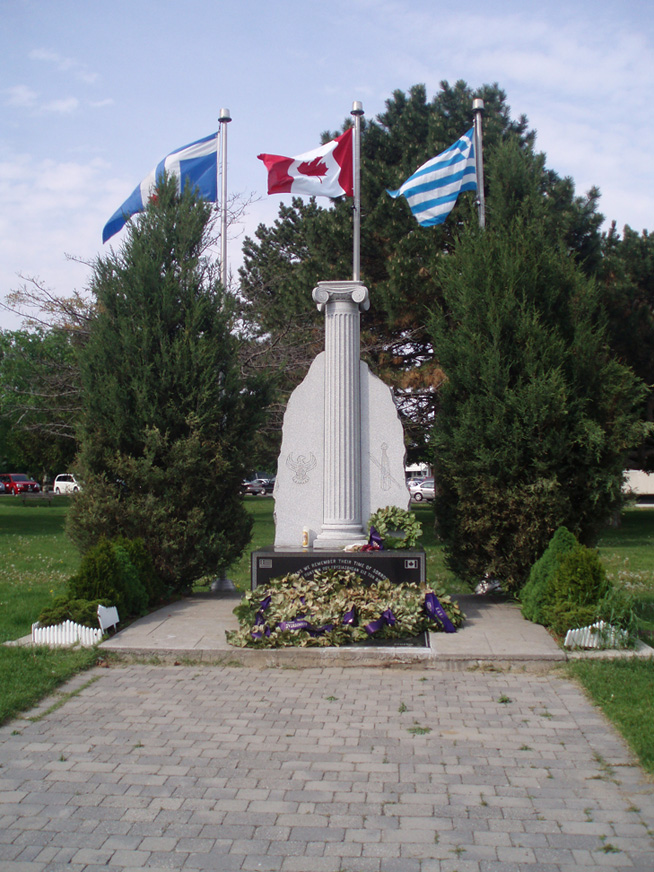 The Greek Pontian Memorial (erected in 2000) in Toronto in front of the S. Walter Stewart Library.The monument represents the 353,000 victims of the genocide against Greeks between 1914 and 1923 in Asia Minor. The monument reads: For all the Pontians we remember their time of sorrow and sacrifice.